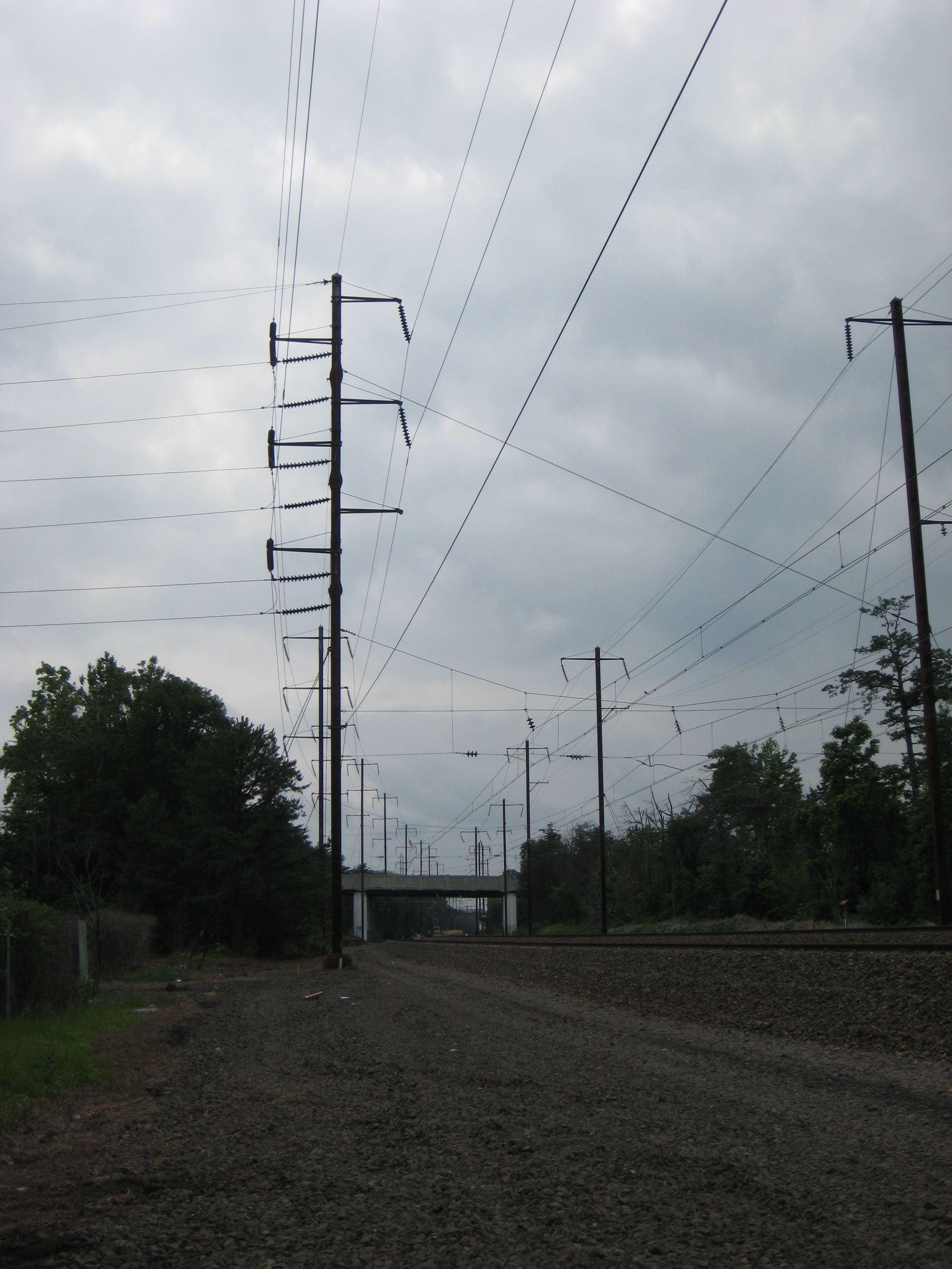 Electricity pylons and catenary supports for the Amtrak Northeast Corridor and MARC Penn Line near Odenton, Maryland.